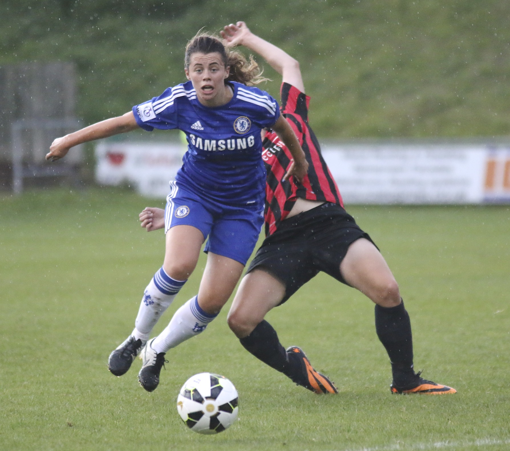 Laura Rafferty playing for Chelsea Ladies' development squad versus Lewes